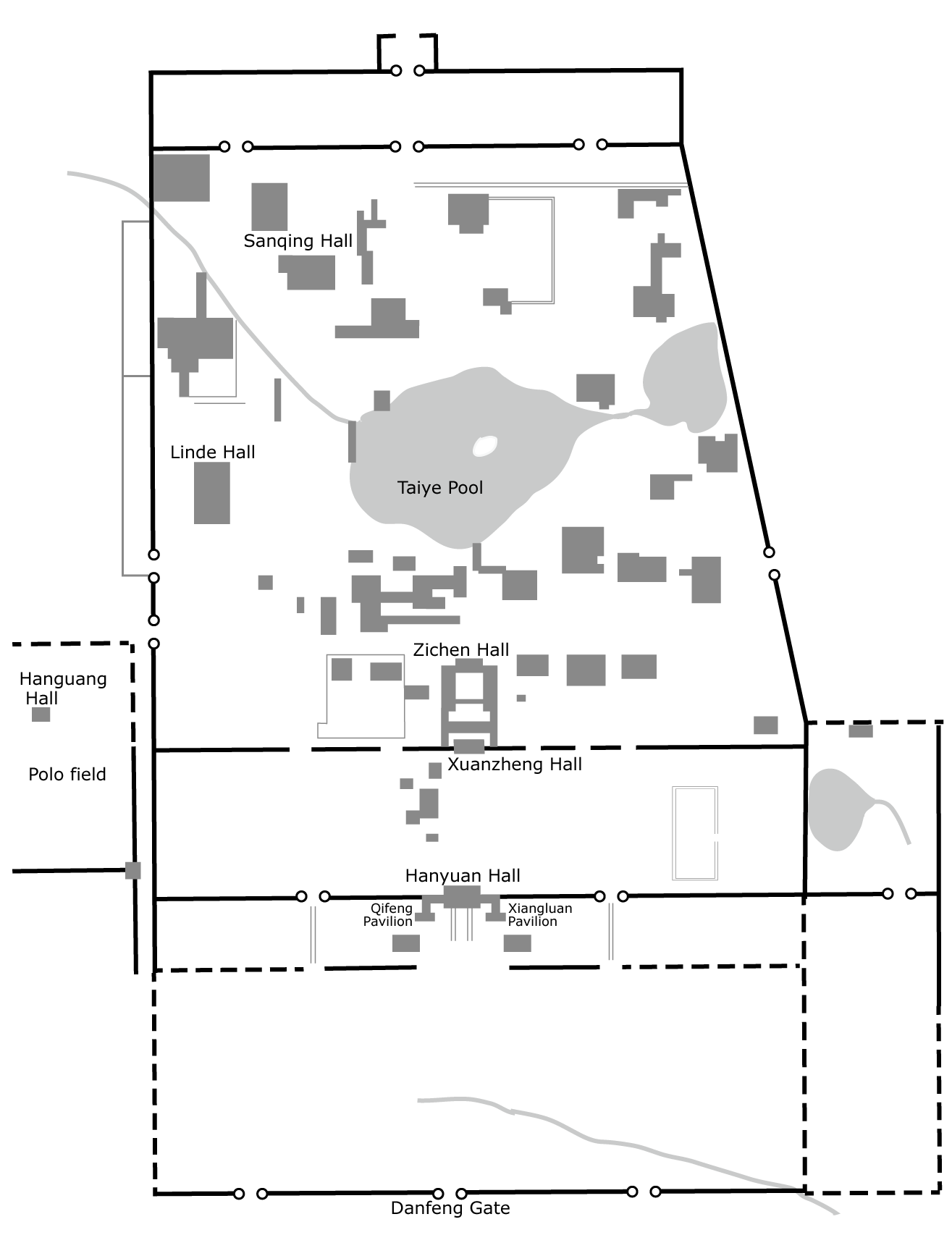 Ruins of Daming Palace (Xi'an, China)